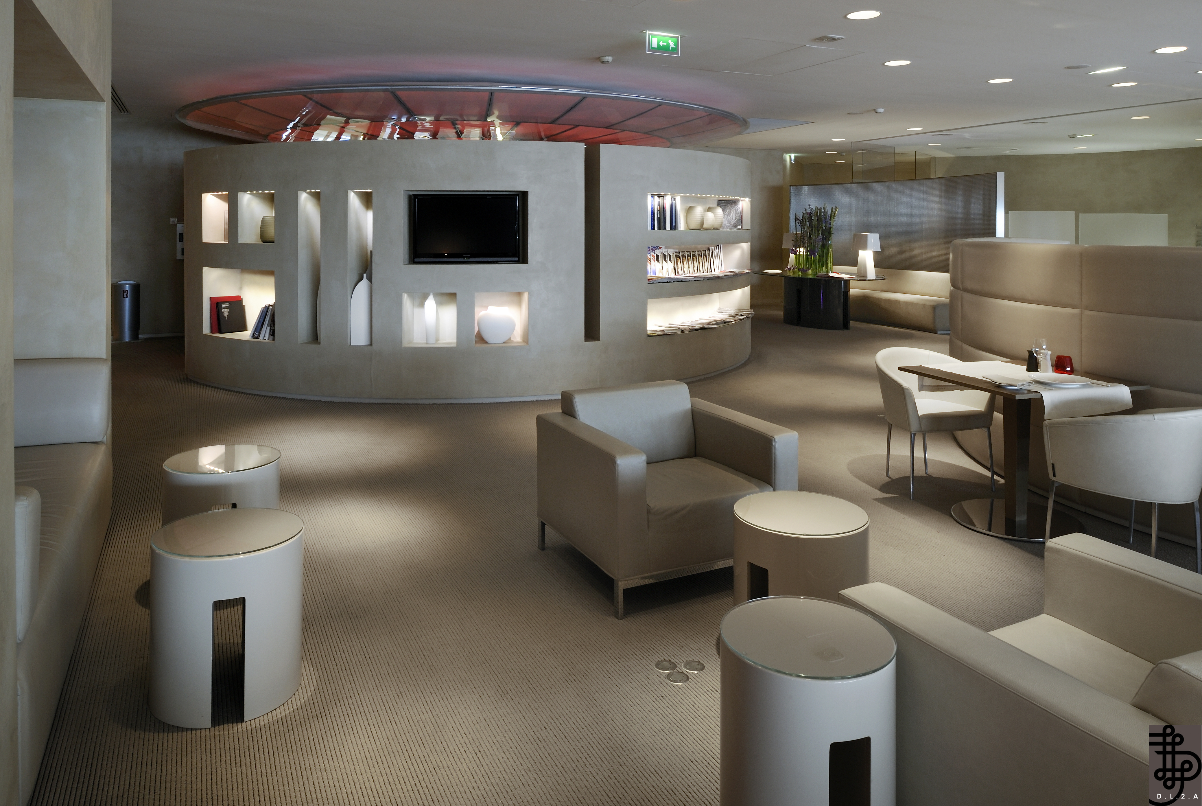 DL2A Salon première Air France PARIS CDG Roissy